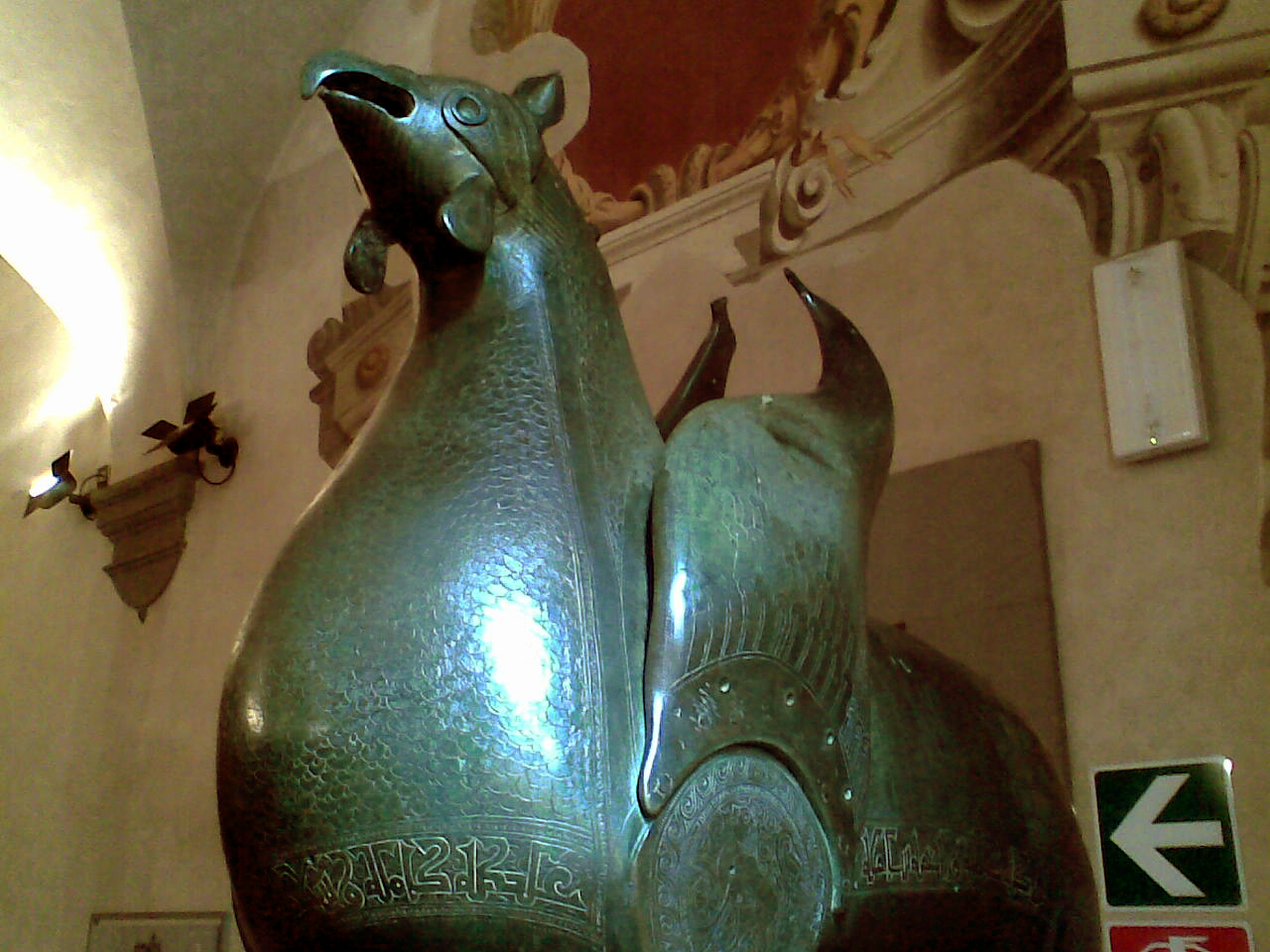 Pisa, Museo dell'Opera del Duomo: Griffin-shaped fountain spout. Bronze. Early 11th. century artwork. Al-Andalus or Fatimid Egypt (from Palermo?).